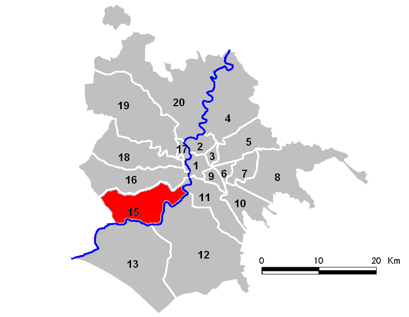 Locator maps of Rome